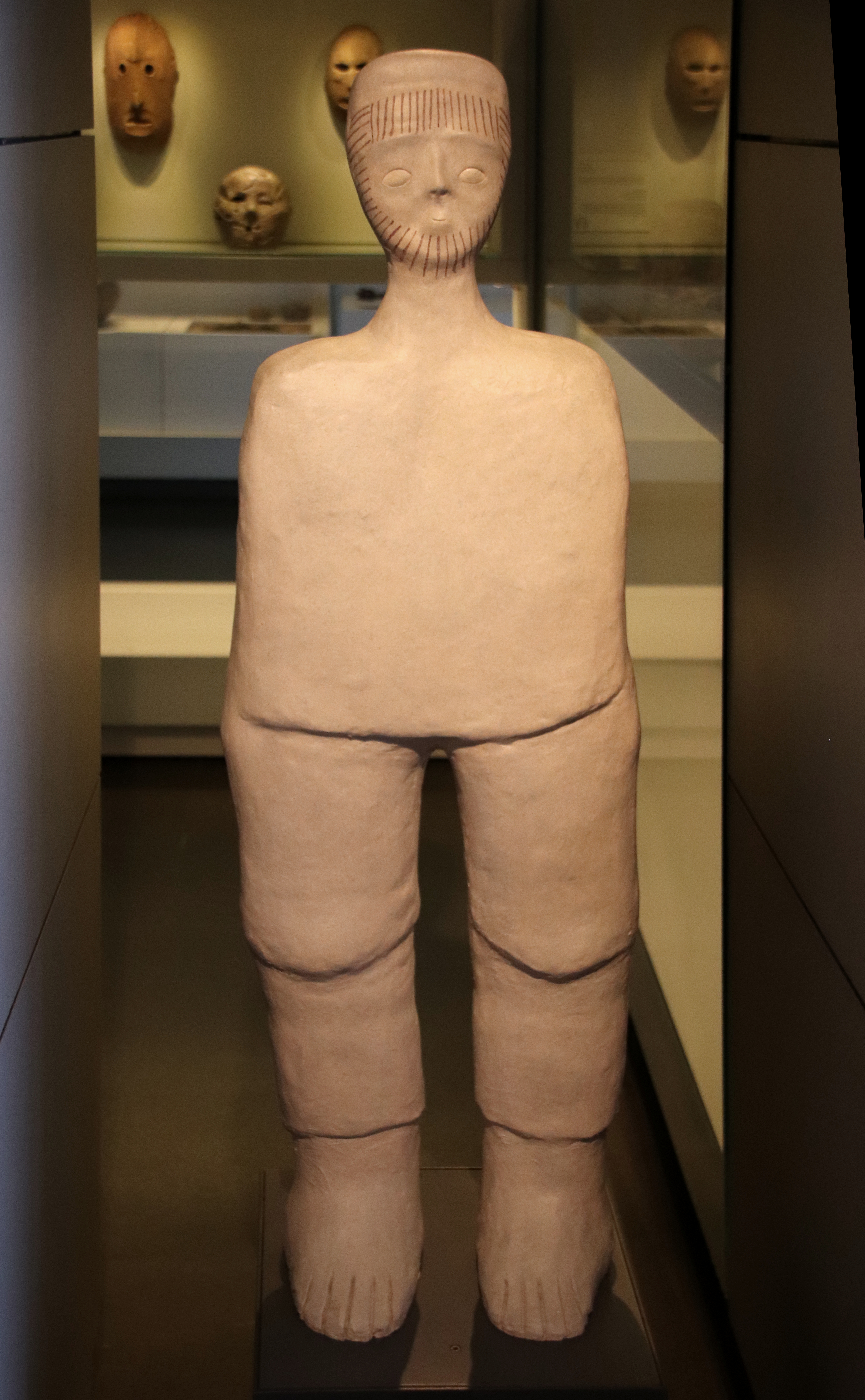 Ancestor Statue, Jericho, c. 9000 BC, Replica Israel Museum, Jerusalem, Israel. Complete indexed photo collection at . (in English) (2016) Biological Anthropology and Prehistory: Exploring Our Human Ancestry, Routledge, p. 636 ISBN: 9781317349815.